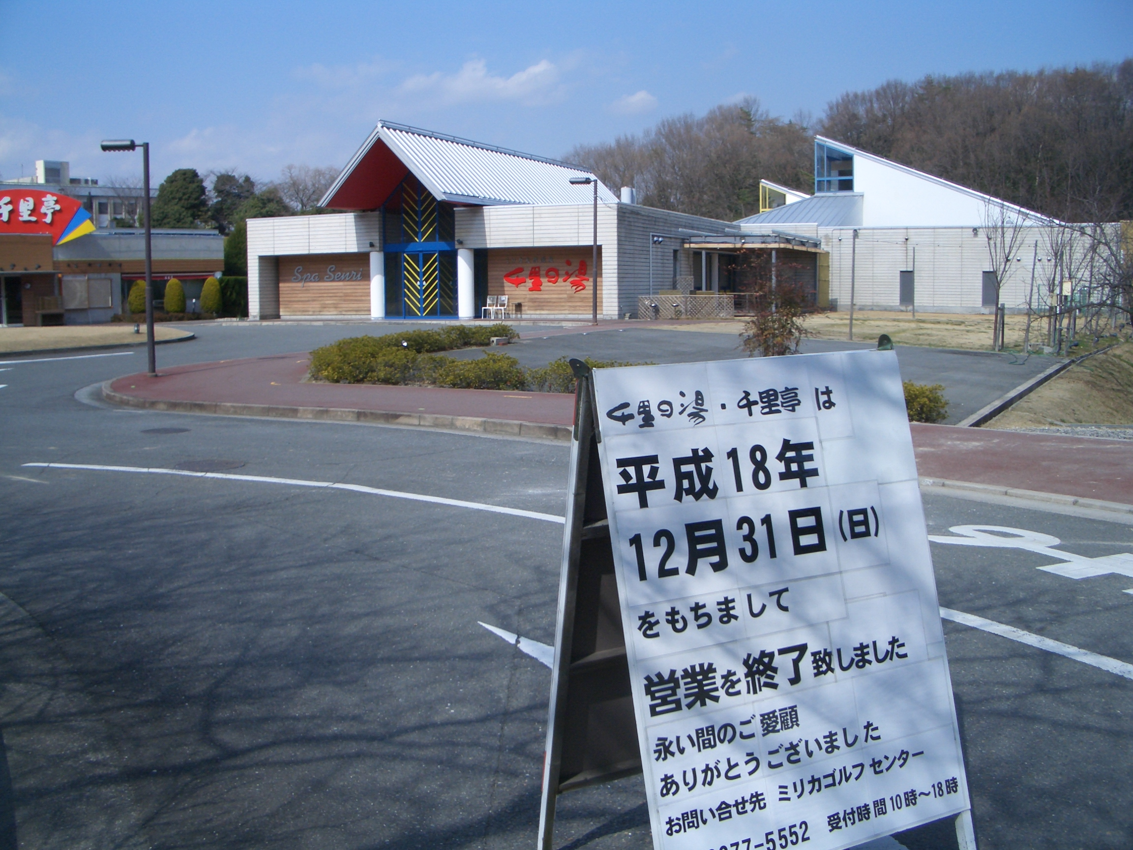 Senrinoyu, 1-2 Senrioka-kita Suita-City Osaka Japan.